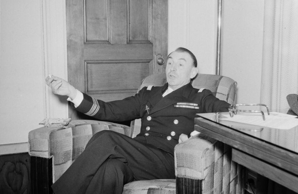 Georges Thierry d'Argenlieu, as representant of Charles de Gaulle in Canada.